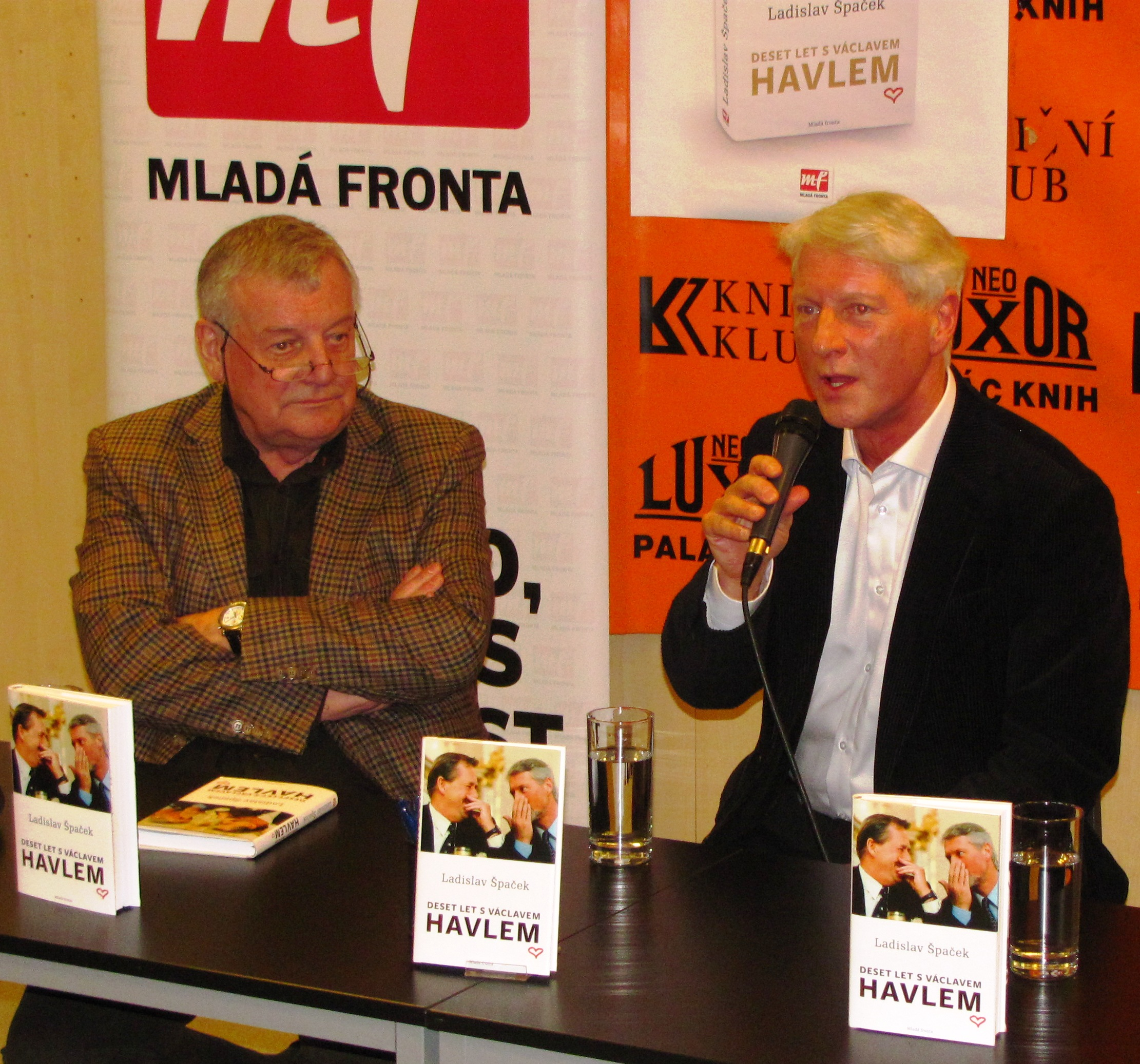 Karel Hvížďala and Ladislav Špaček (from left) during Špaček´s new book launch ("Ten years with Václav Havel"), Prague March 5th, 2012